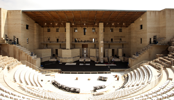 ref: PM_051625_E_Sagunt; Sagunt; Teatro romano; Comunidad Valenciana, València; Spain; ; Cultural heritage; Cultural heritage/Roman; Europe/Spain/Sagunt; Wiki Commons; Photographer: Paul M.R. Maeyaert; © Paul M.R. Maeyaert